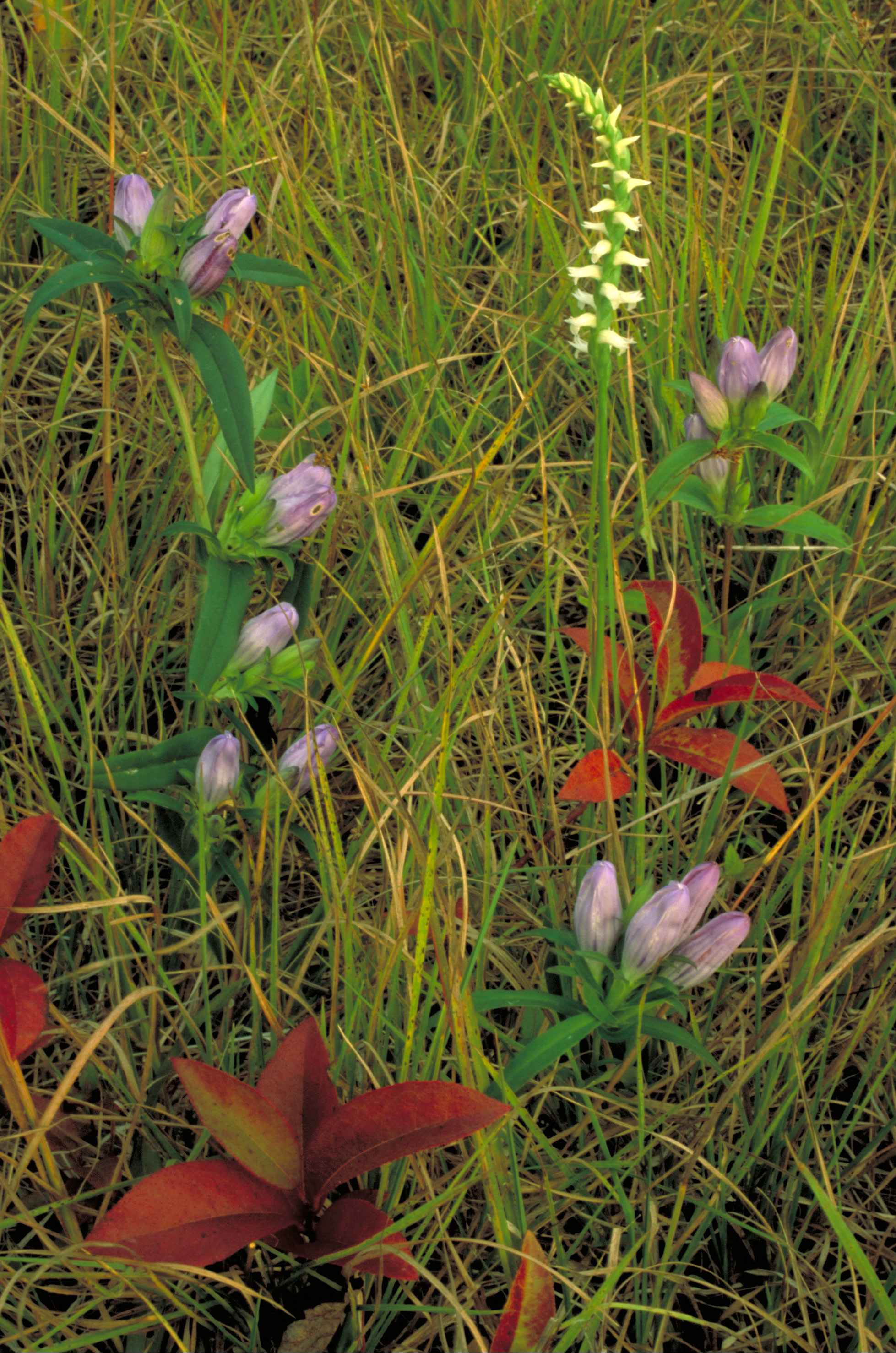 Image title: Soapwort gentian and nodding ladies tresses Image from Public domain images website